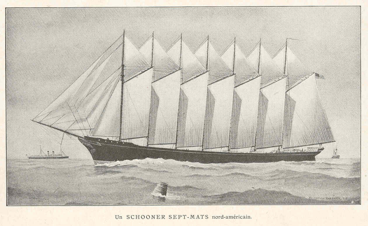 A schooner, seven-masted, North-American Subject: Schooners Tag: Vessels